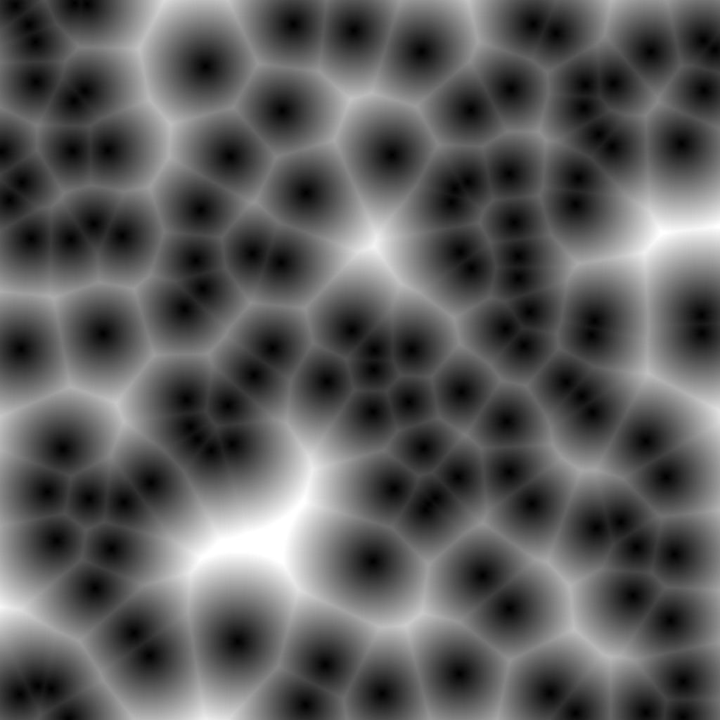 Worley noise: example of worley noise with euclidean distance function